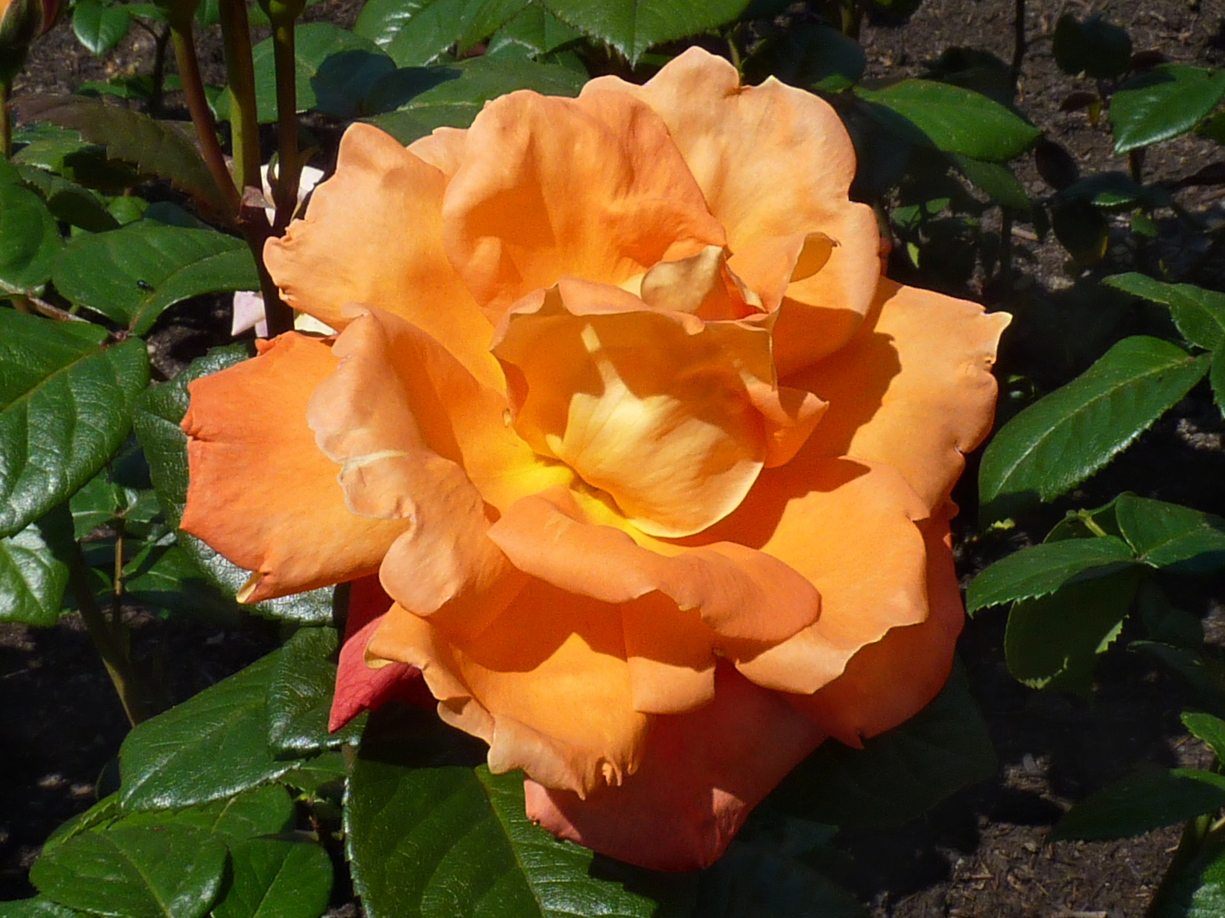 Rosa 'Louis de Funès' (Meilland, 1984), in the international rose garden of Kortrijk, Belgium.